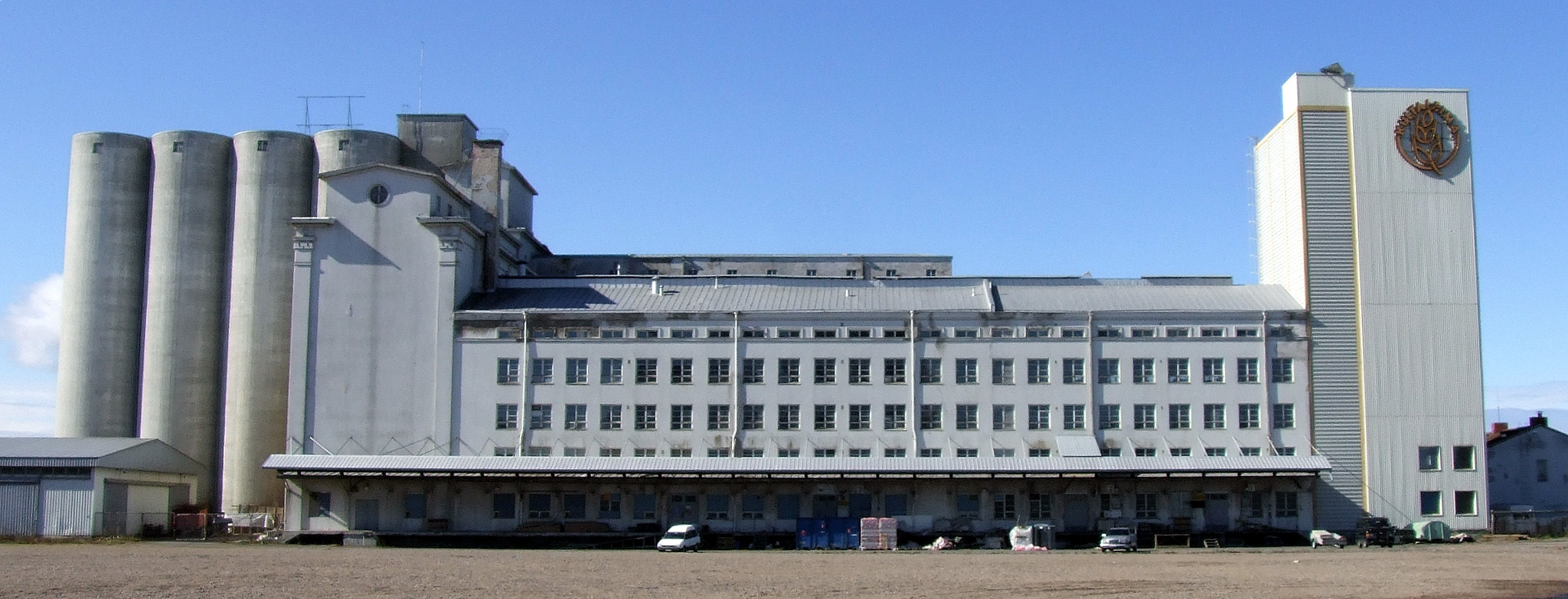 SOK Cooperative's Mill Building in Toppila, Oulu, Finland, was designed by architect Erkki Huttunen in 1928.